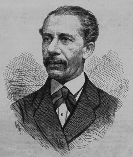 Portrait of Ede Horn